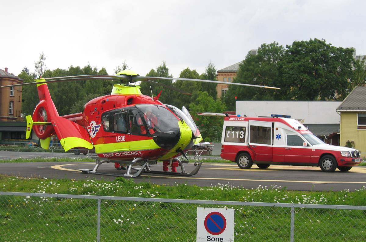 Norwegian Ambulance Helicopter Eurocopter EC-135